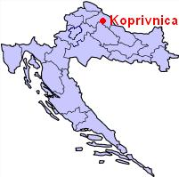 Locator map of Koprivnica in Croatia.